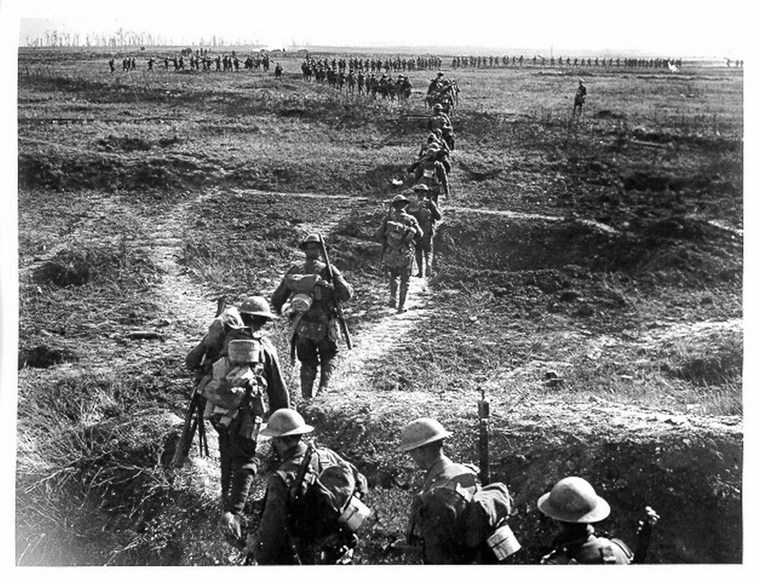 The single file of infantry going forward During the Battle of the Canal du Nord.